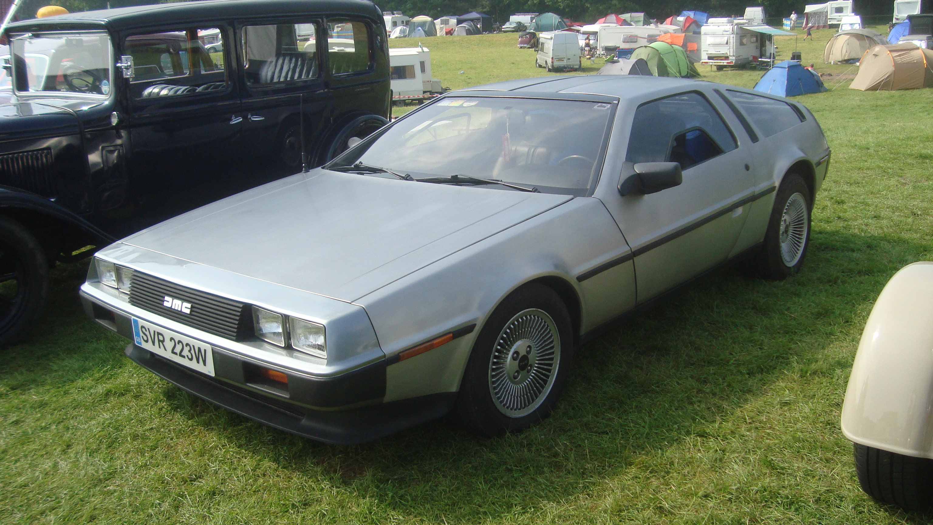 First registered in the UK on 16th April 2012